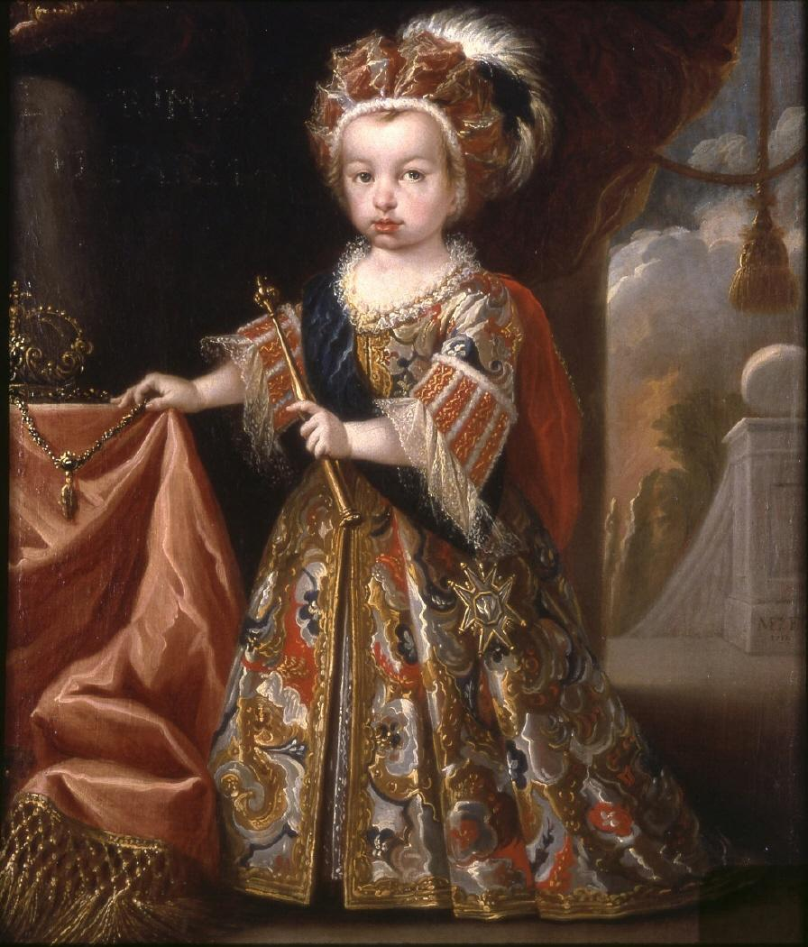 The Prince of Asturias, future Louis I of Spain (17-1724).